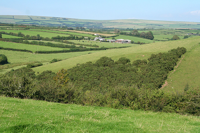 North Molton: Bornacott Looking north-north-east with Five Barrows Hill and Fyldon Common on Exmoor, on the skyline. Bornacott farm is within the square